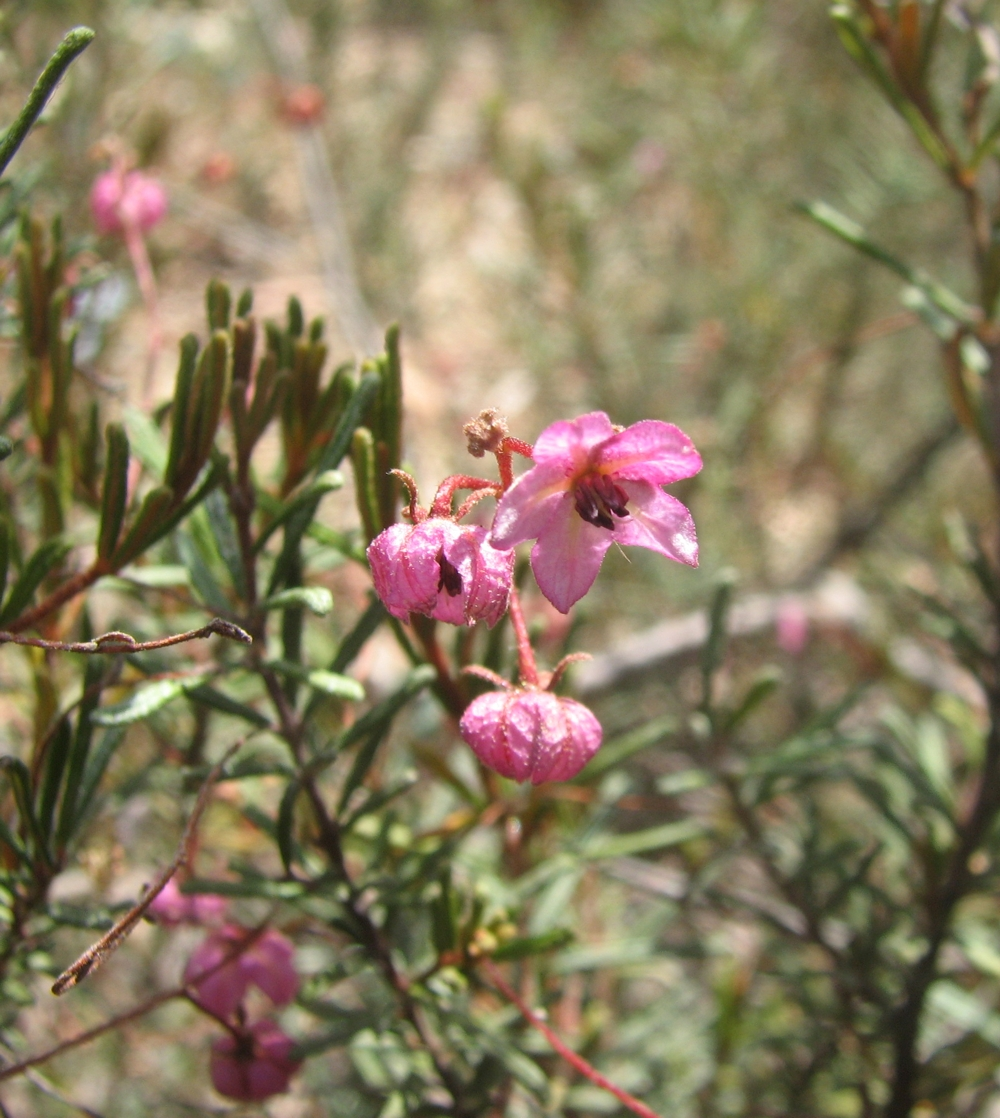 Thomasia sarotes (cultivated, labelled) Maranoa Gardens, Balwyn, Victoria, Australia